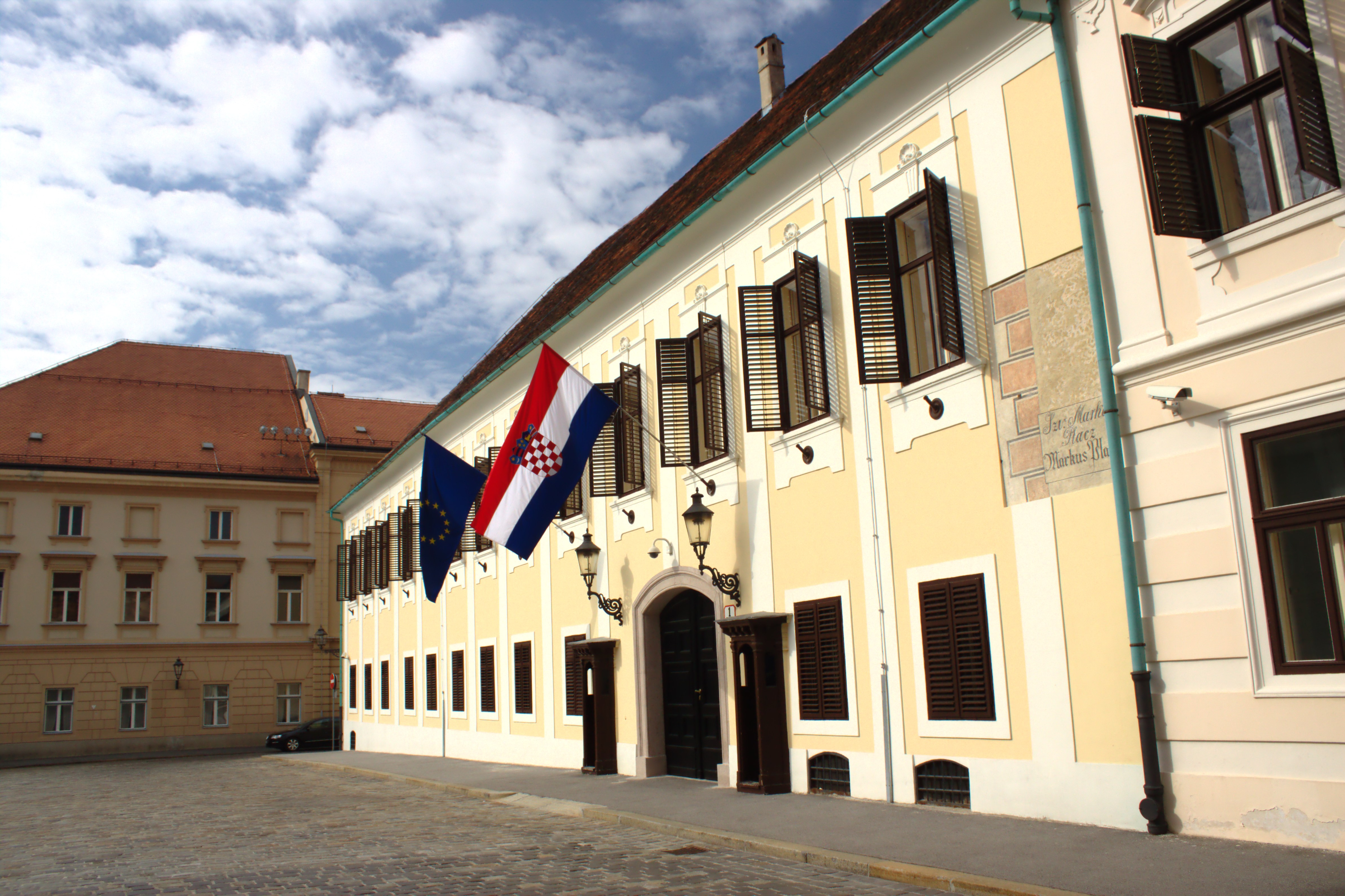 Croatian government building in Zagreb